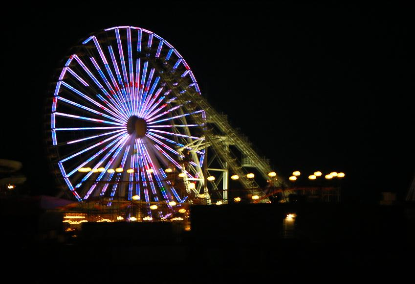 A view of the Mariner's Landing amusement pier in Wildwood, New Jersey at night